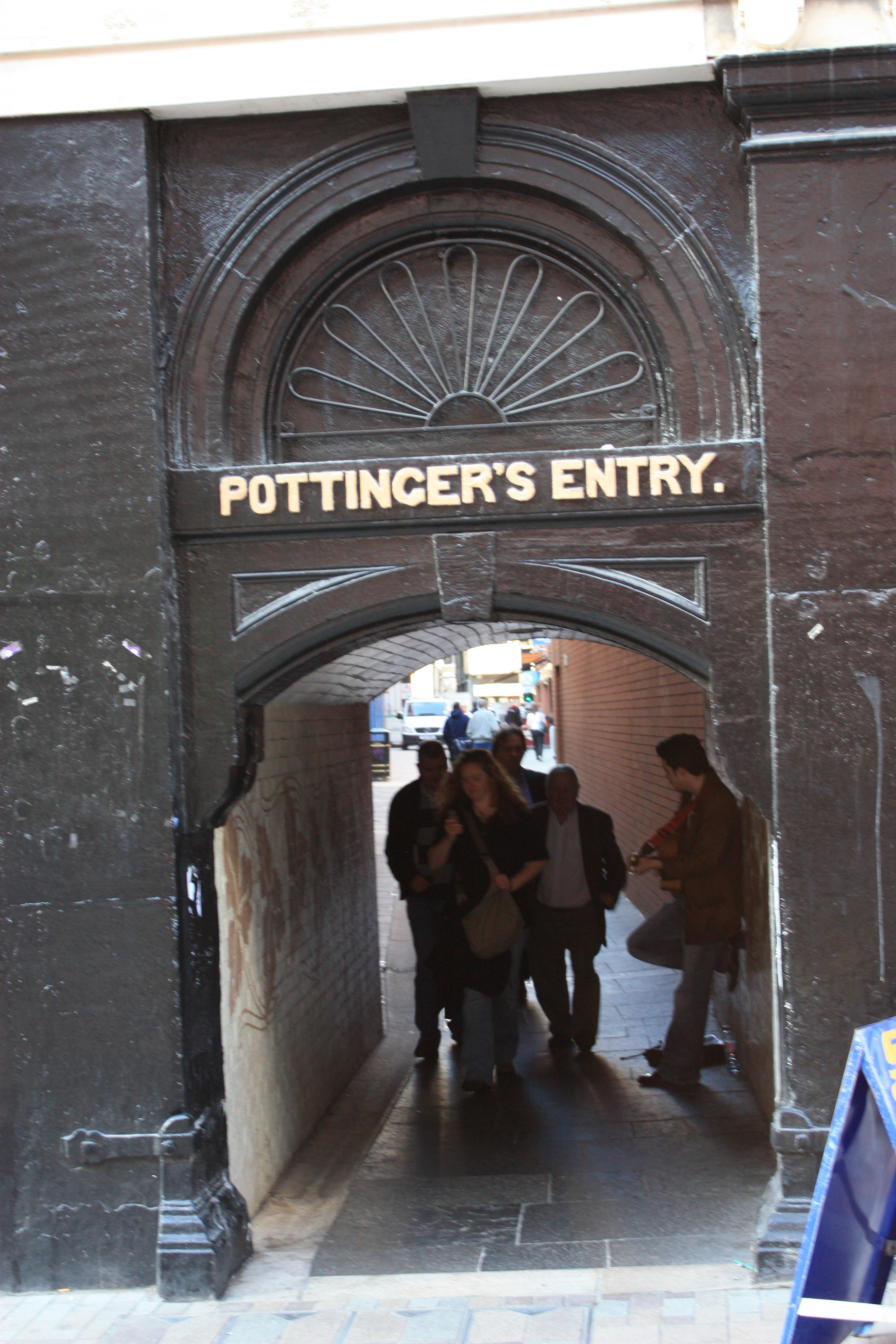 Pottinger's Entry (between Ann Street and High Street), Ann Street entrance, Belfast, Northern Ireland, October 2009